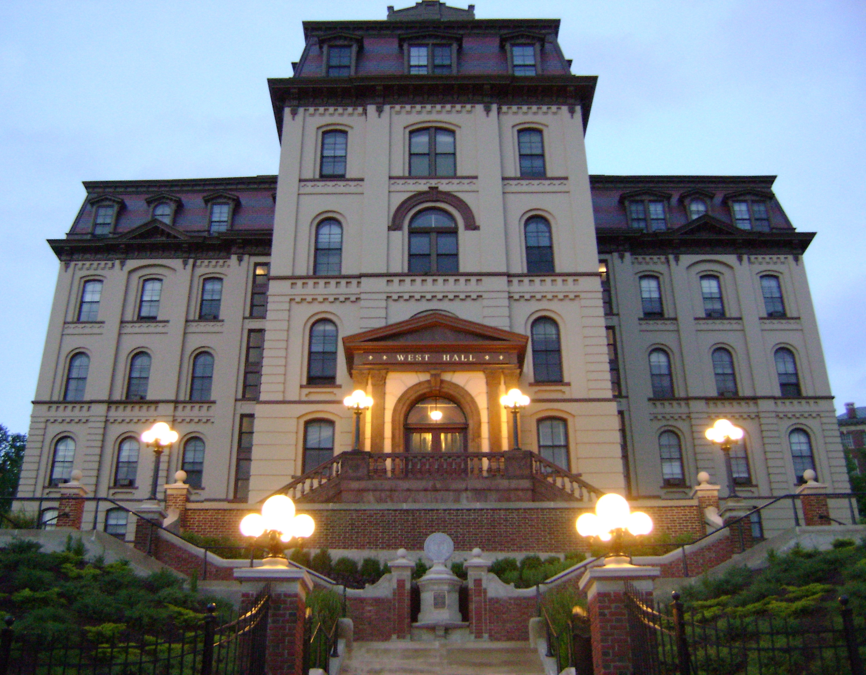 Front, west facing facade of West Hall, at Rensselaer Polytechnic Institute, Troy, NY. Listed on NRHP. Photo taken shortly after sunset.